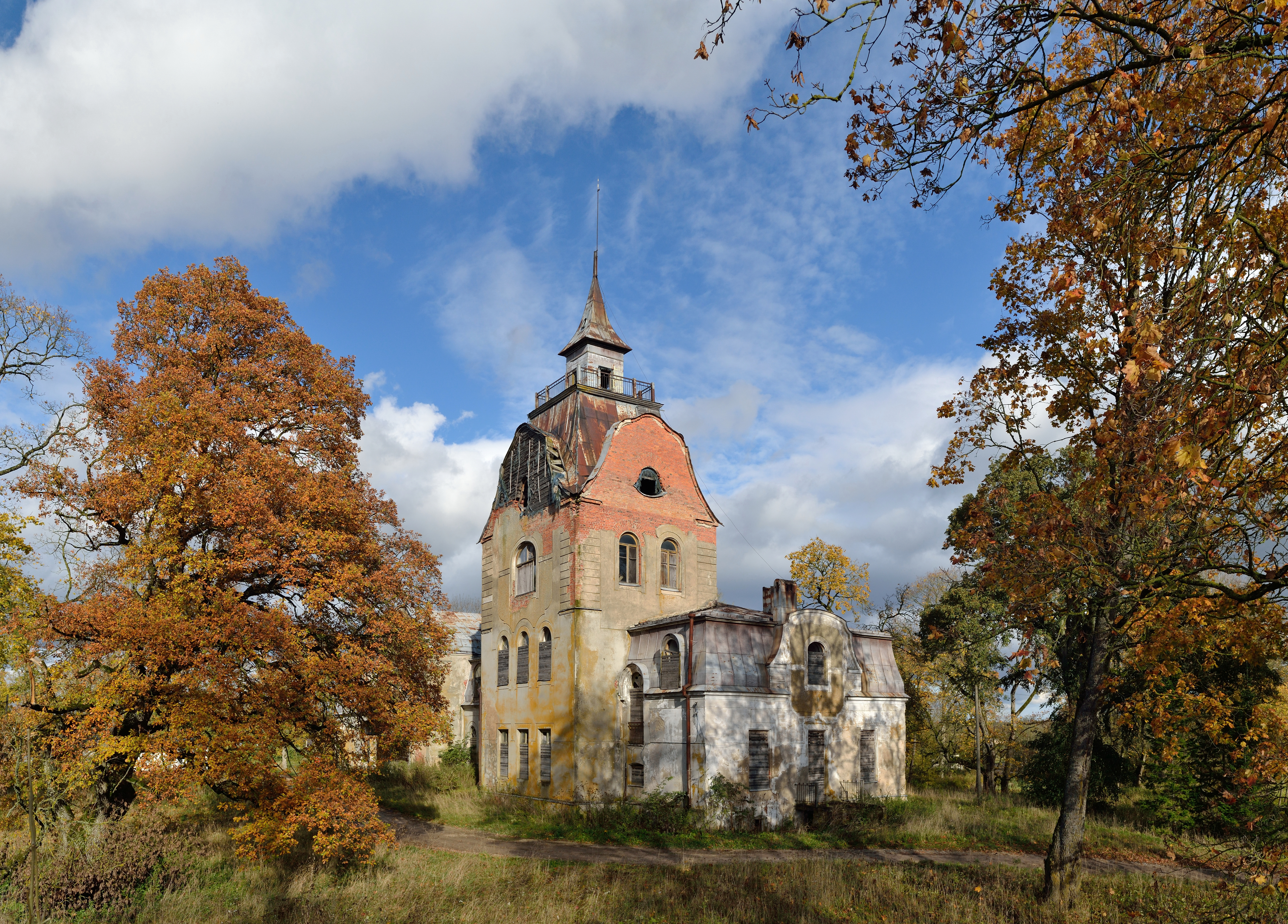 Neeruti manor main building